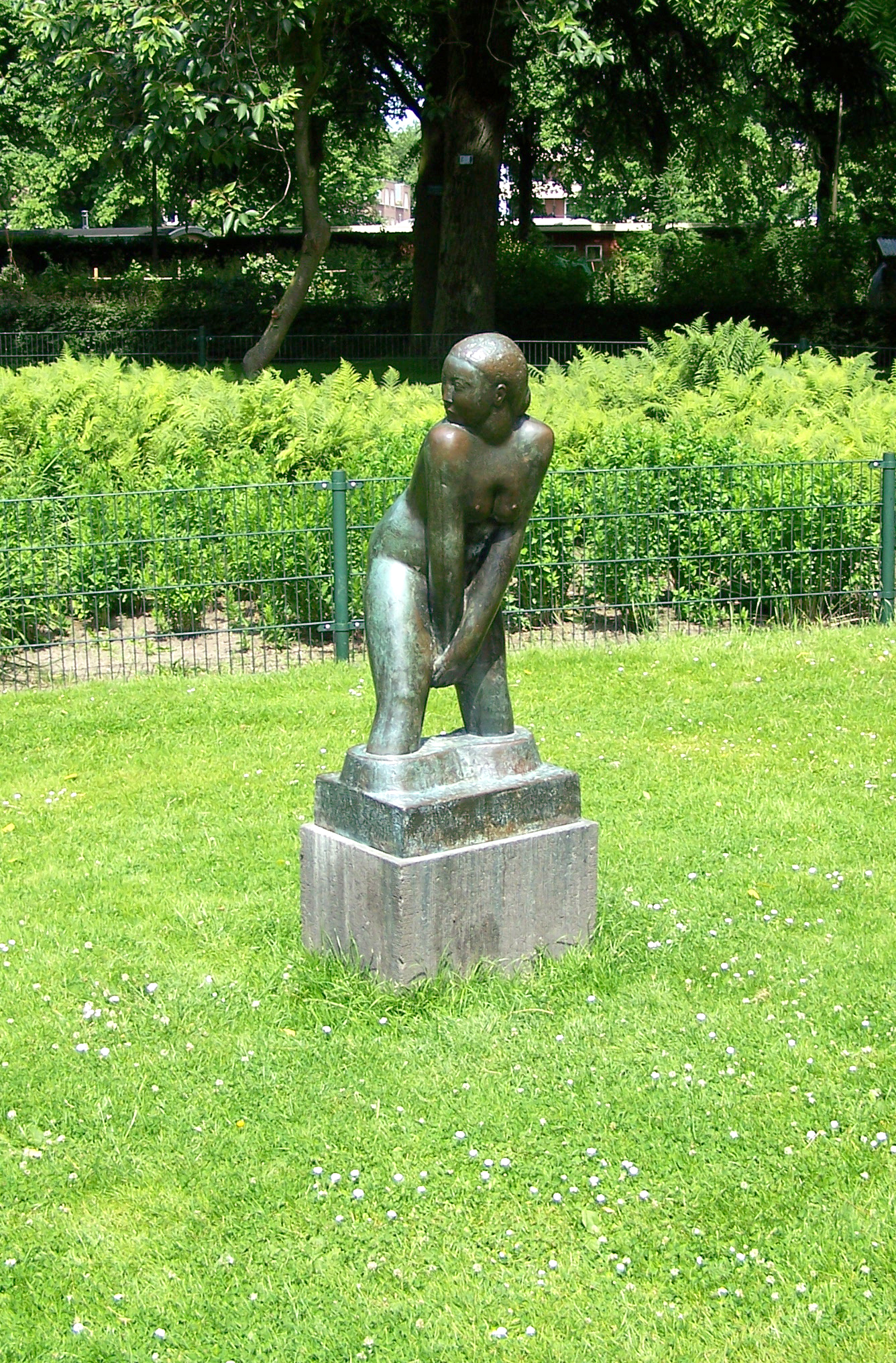 Sculpture "Suzanna". Made by Oscar Jespers in 1964. Placed in Park Oog in Al in 1966.